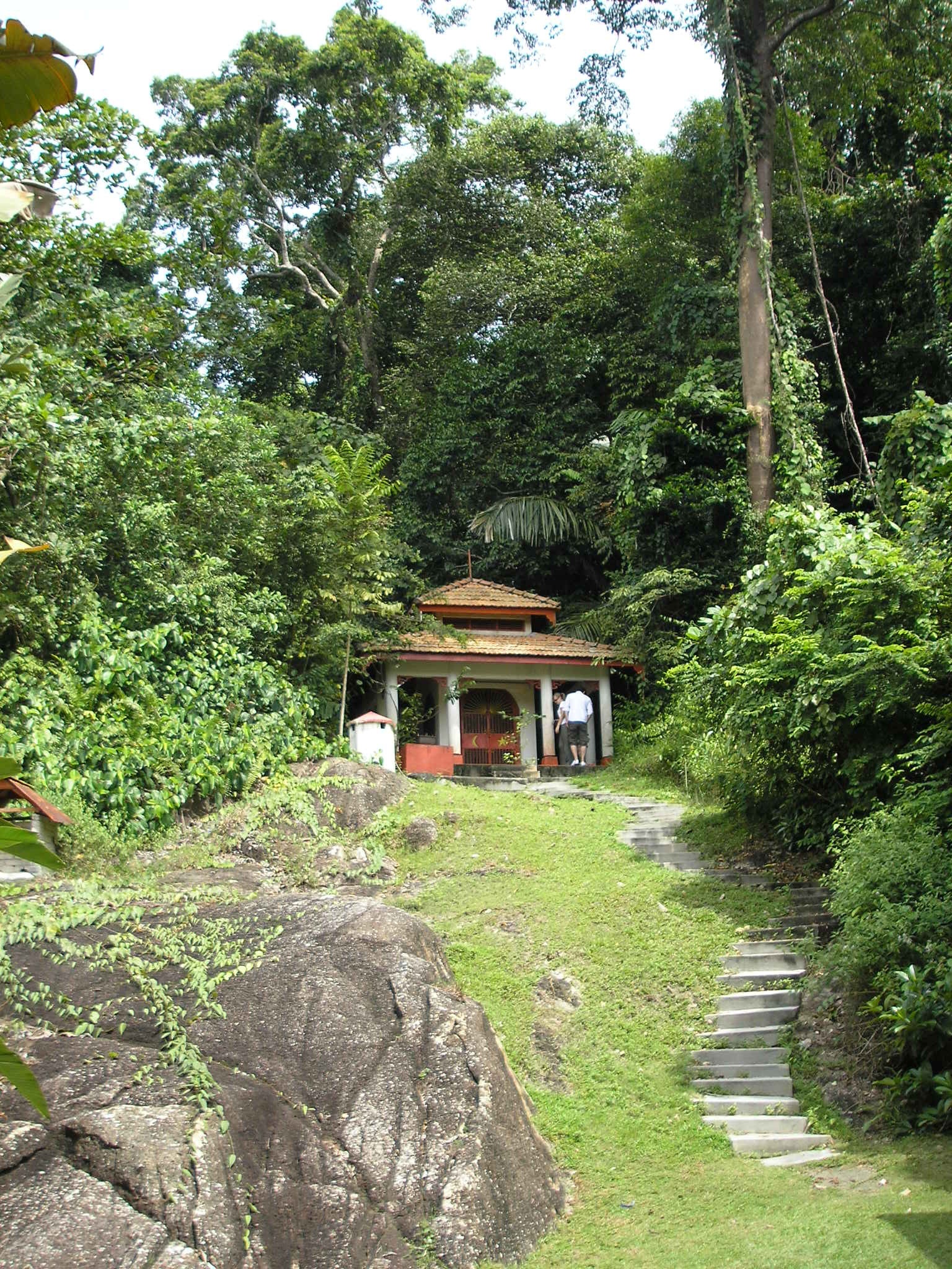 A so-called Datuk Panglima Hijau spirit shrine on the Pangkor Island.